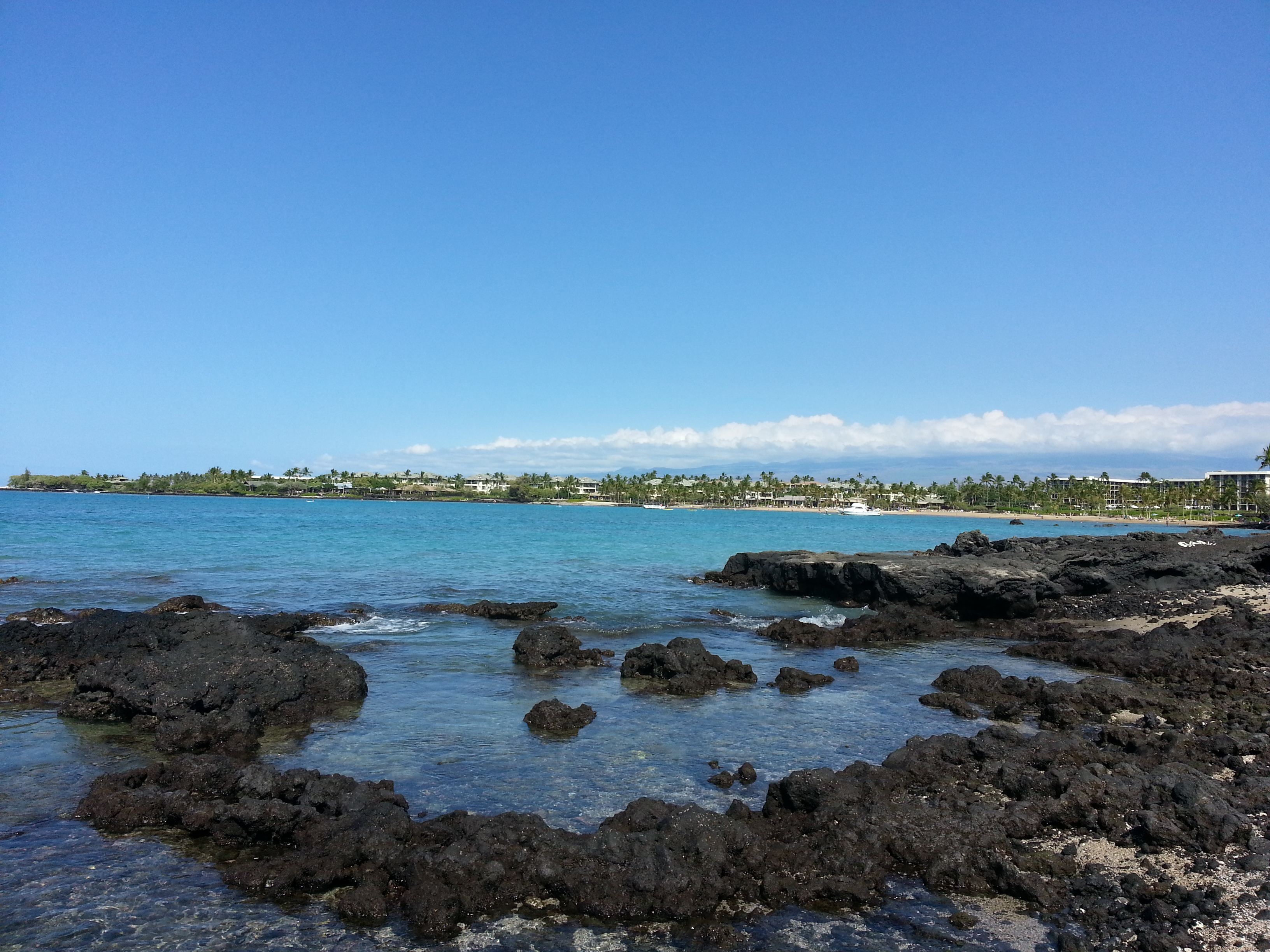 Waikoloa Beach Other information do not use for a profit